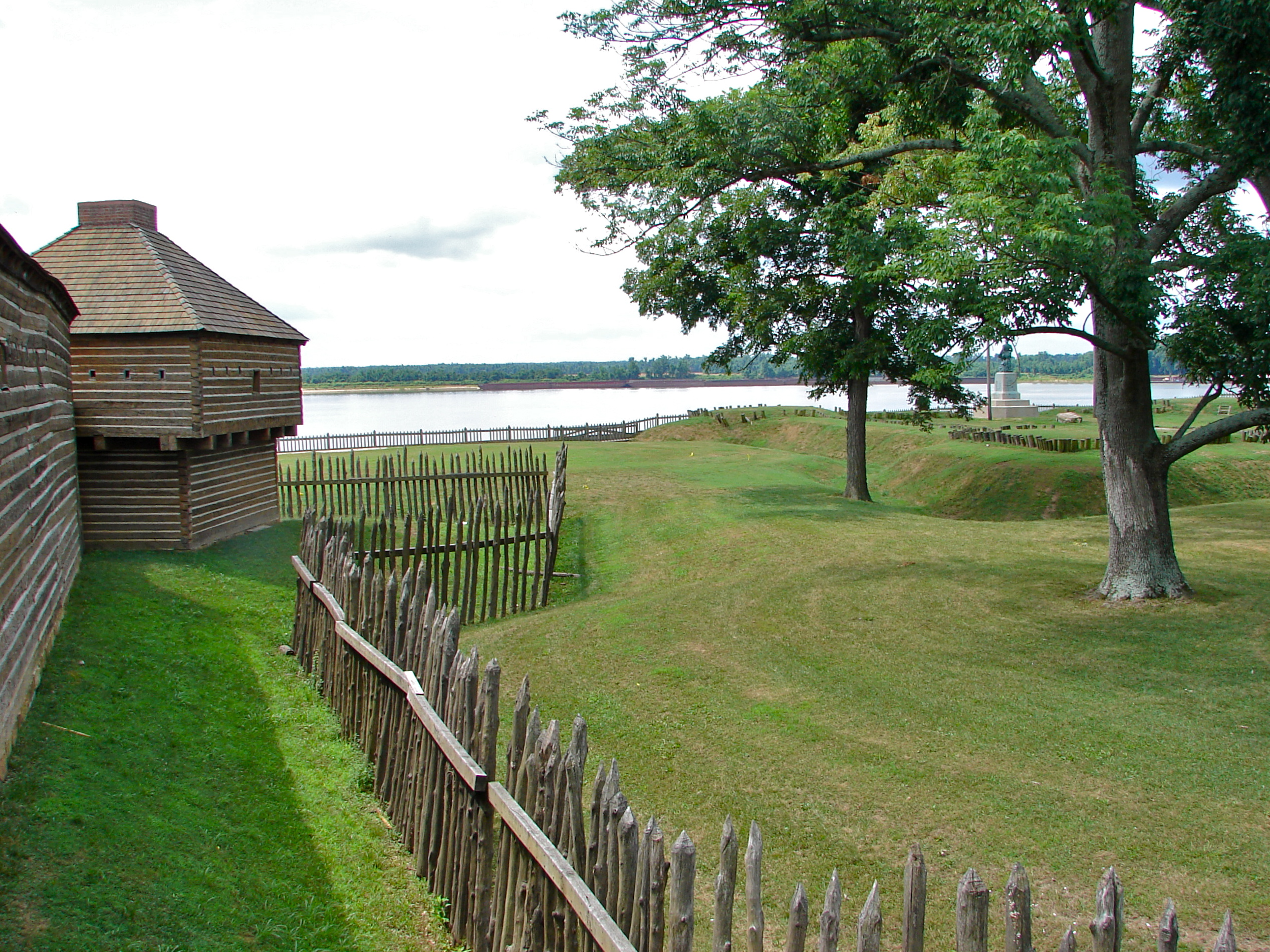 Fort Massac Site on NRHP since July 14, 1971. Located SE of Metropolis, Illinois on the Ohio River. Photo shows reconstruction of the fort, with the Ohio River and a statue to George Rodgers Clark in the background